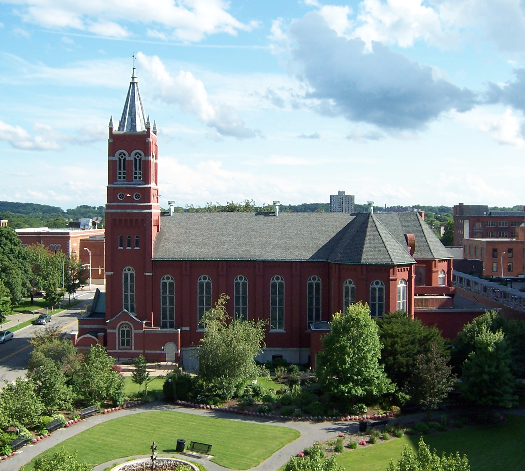 St. Mary's Roman Catholic Church in Rochester, New York. The cornerstone was blessed 18 September 1853 by Bishop of Buffalo John Timon (the Diocese of Rochester was not formed until 1868). The building was dedicated, with Timon presiding, on 24 October 1858. The bell tower, however, was not completed until 1940 due to financial difficulties. The church, along with the adjacent rectory (not visible in this photograph) was added to the National Register of Historic Places on 12 March 1992. The bell tower's original cross (shown here, its copper cladding having long since turned green) fell in a windstorm in 2017. It was replaced with a new gold-plated cross in 2018.